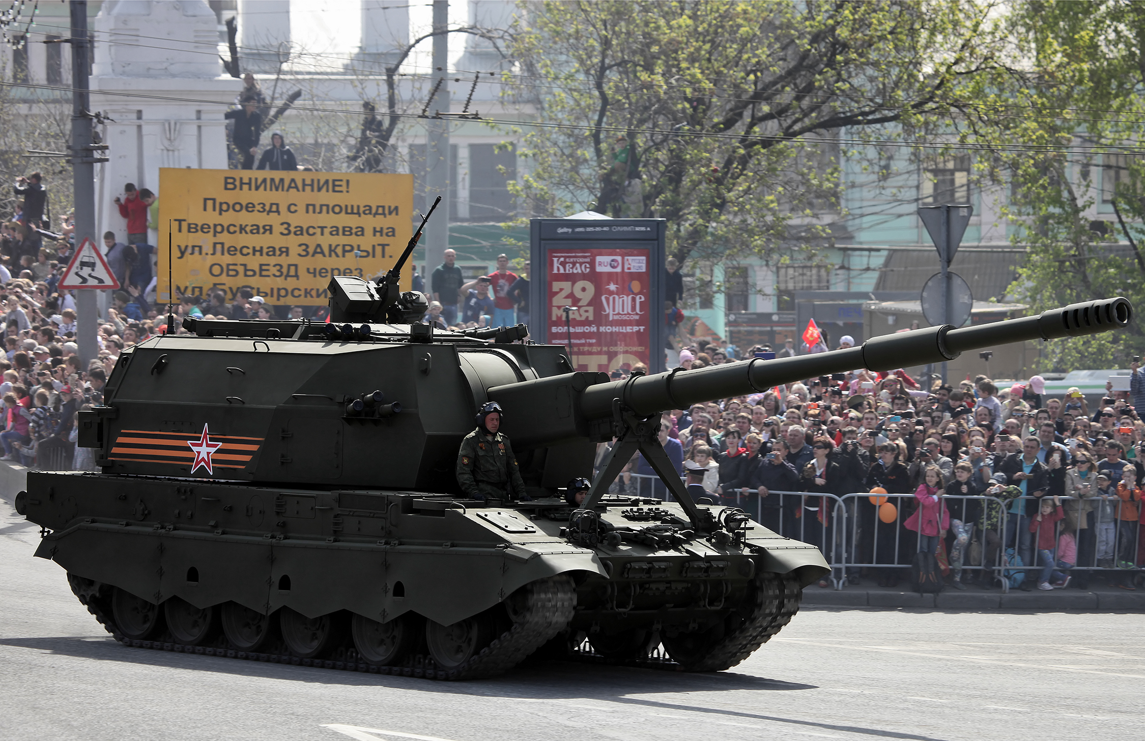 152mm self-propelled gun 2S35 Koalitsiya-SV (in the streets of Moscow on the way to or from the Red Square)